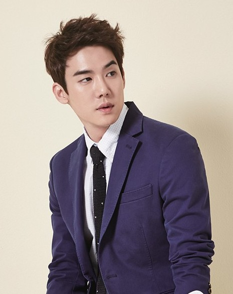 Yoo Yeon-seok - Bean Pole catalogue 2015 Spring-Summer